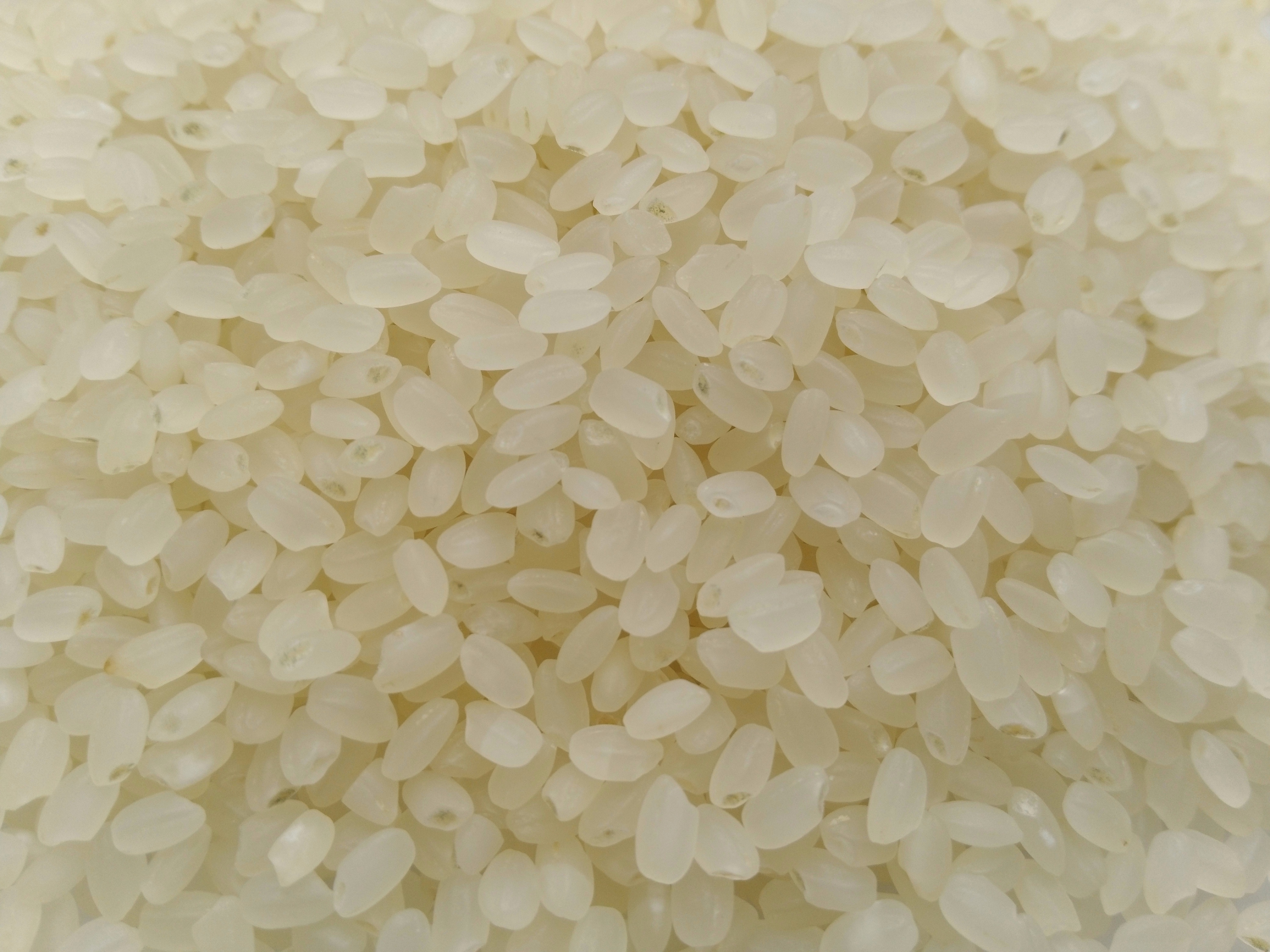 Korean aromatic rice